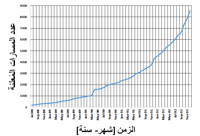 The excessive number of advertised routes in the Merrit network between 1988-1992